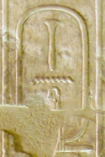 Cartouche 12, Abydos King List. Temple of Seti I, Abydos, Egypt